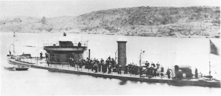 The Swedish monitor John Ericsson in 1867, before she was modified with a flying bridge.